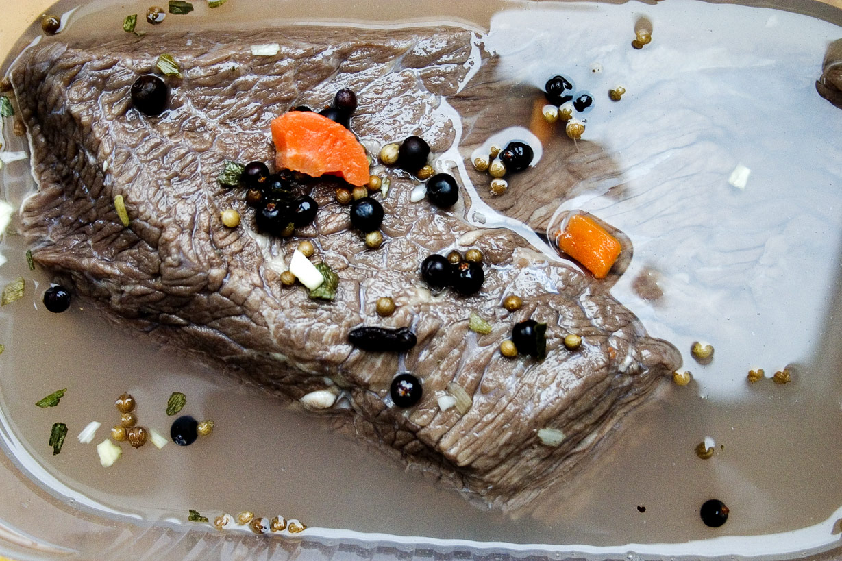 Rheinischer Sauerbraten - mariniert / German specialty from the rhineland - marinated (in vinegar) beef